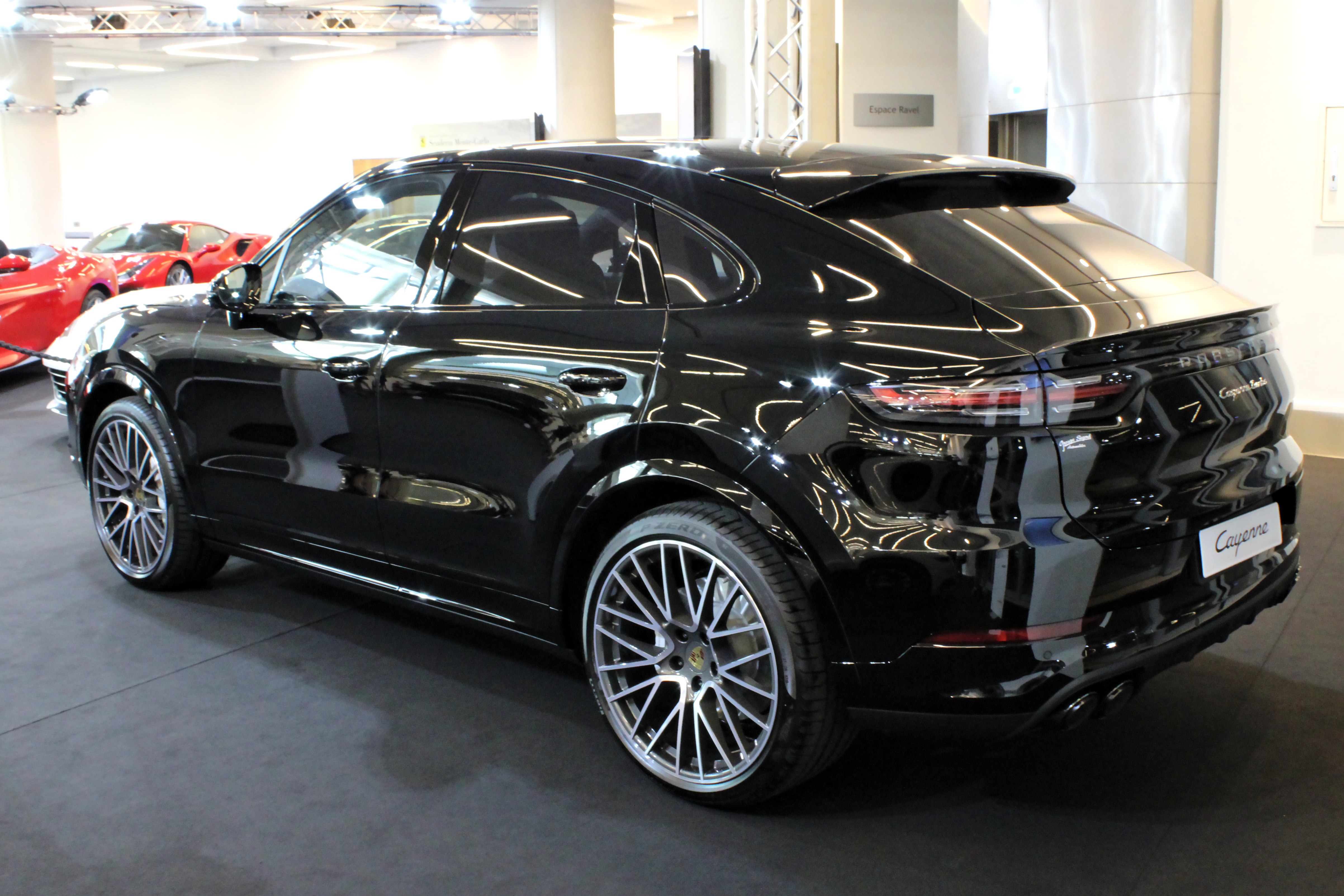 Porsche Cayenne Coupé at Top Marques 2019